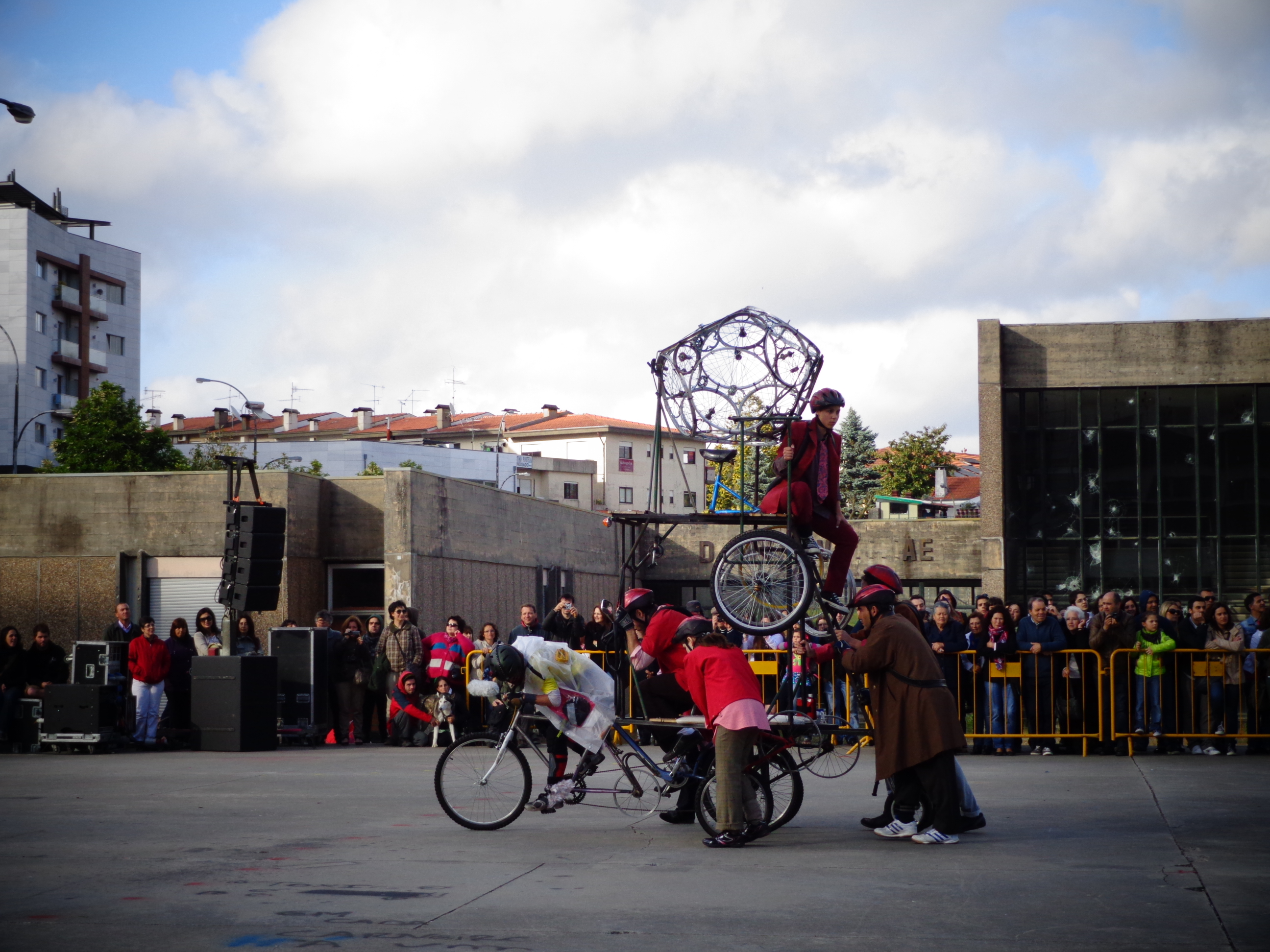 Espactáculo durante o Festival Imaginarius 2013